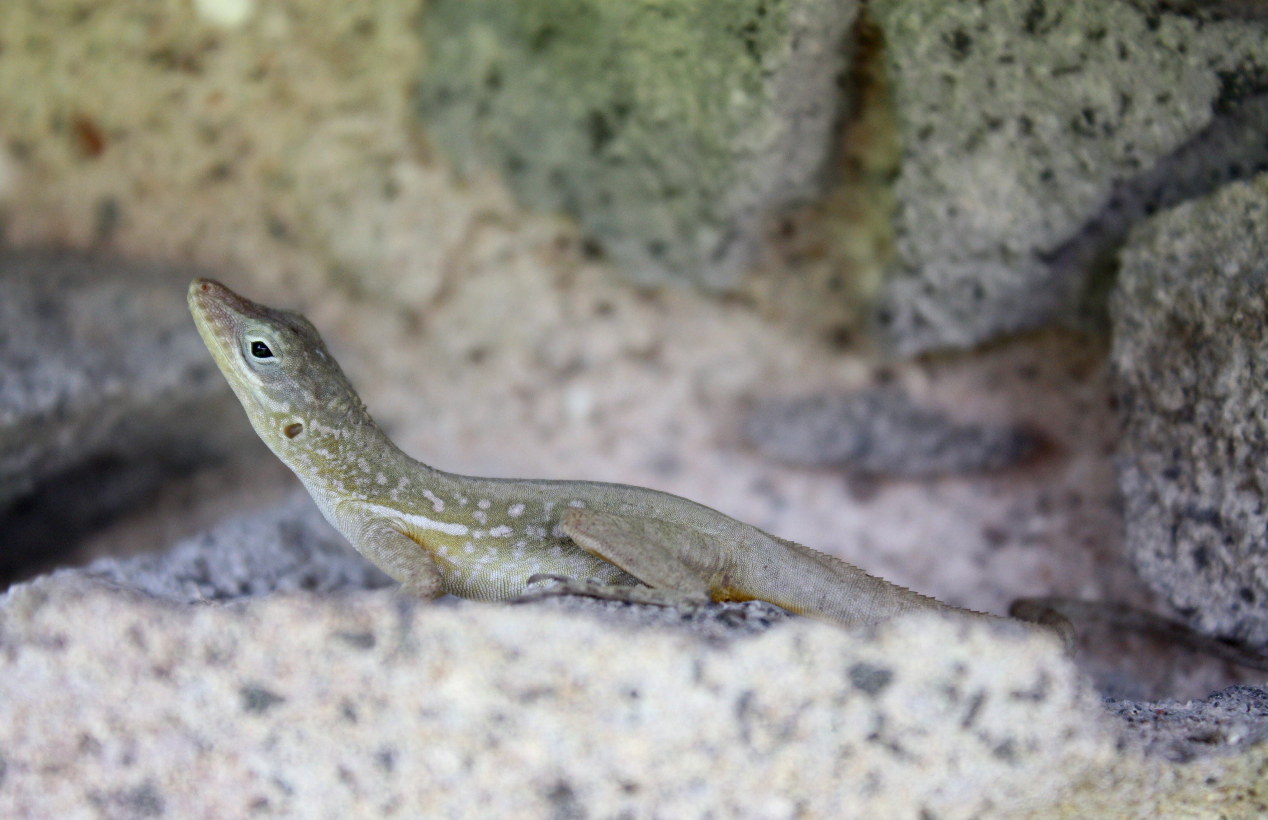 Female Dominican Anole (Anolis oculatus). North Caribbean ecotype (A. o. cabritensis). Cabrits National Park, Dominica.